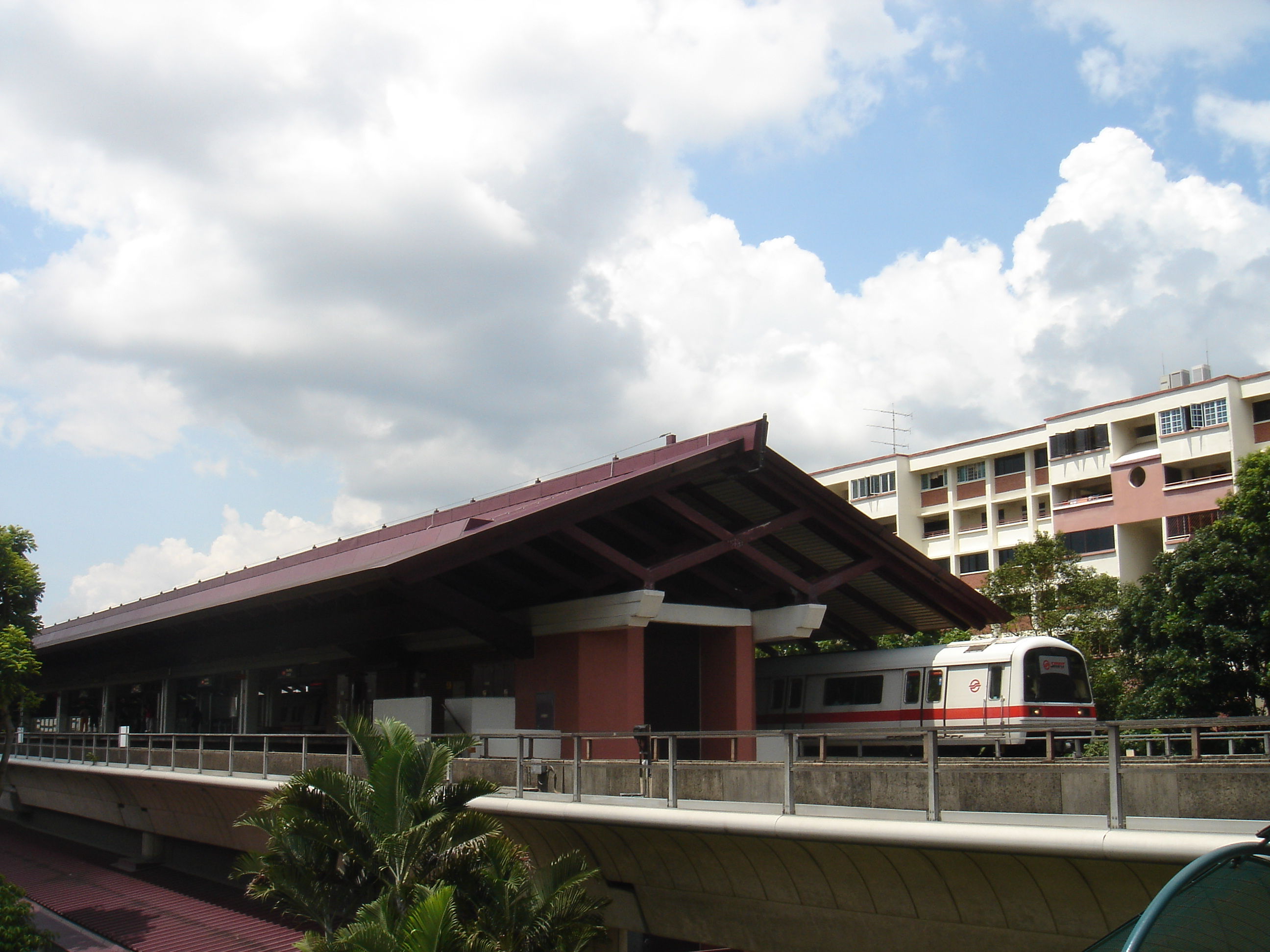 Marsiling MRT Station, train departure towards Jurong East.